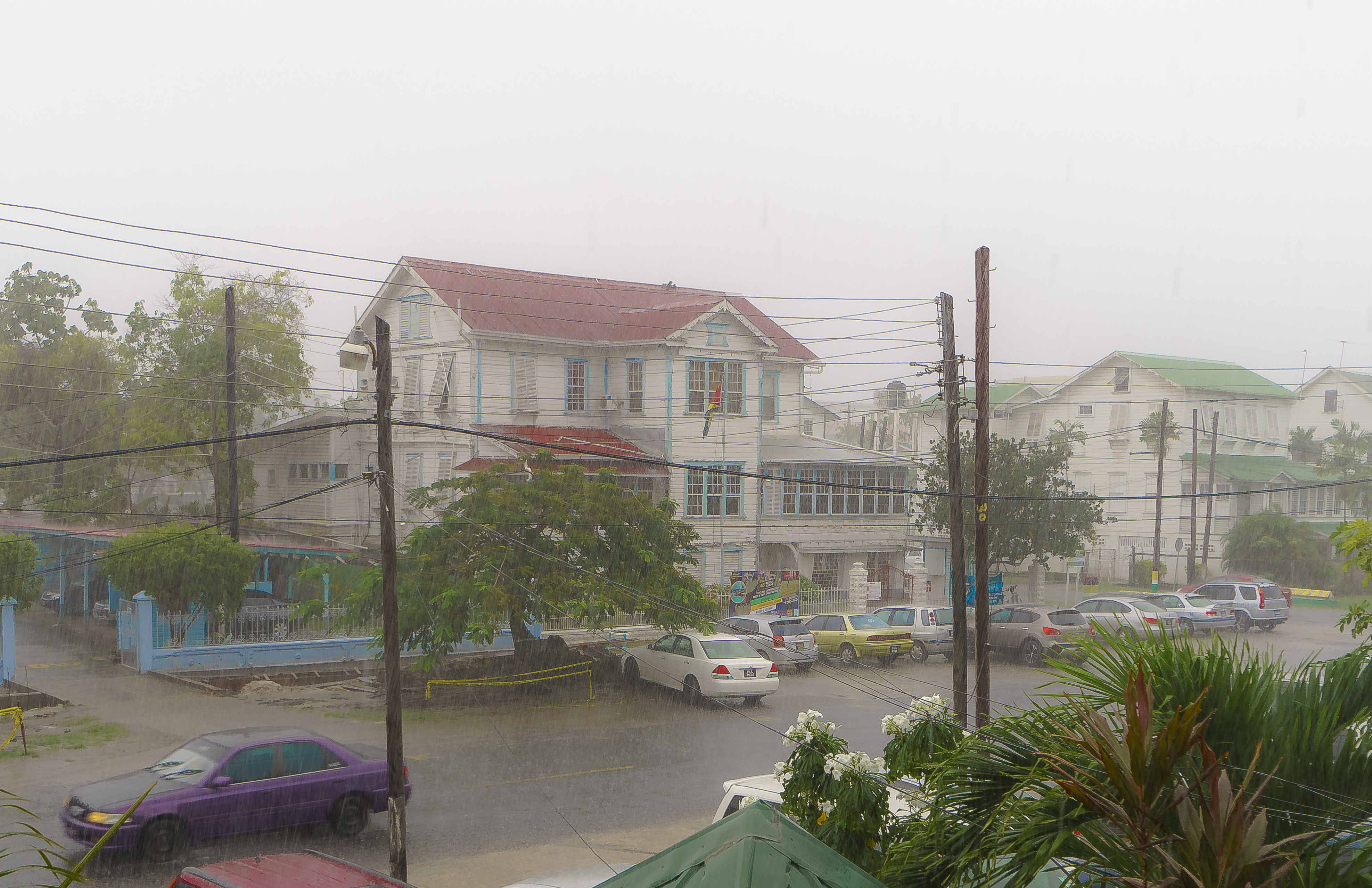 View from my hotel balcony